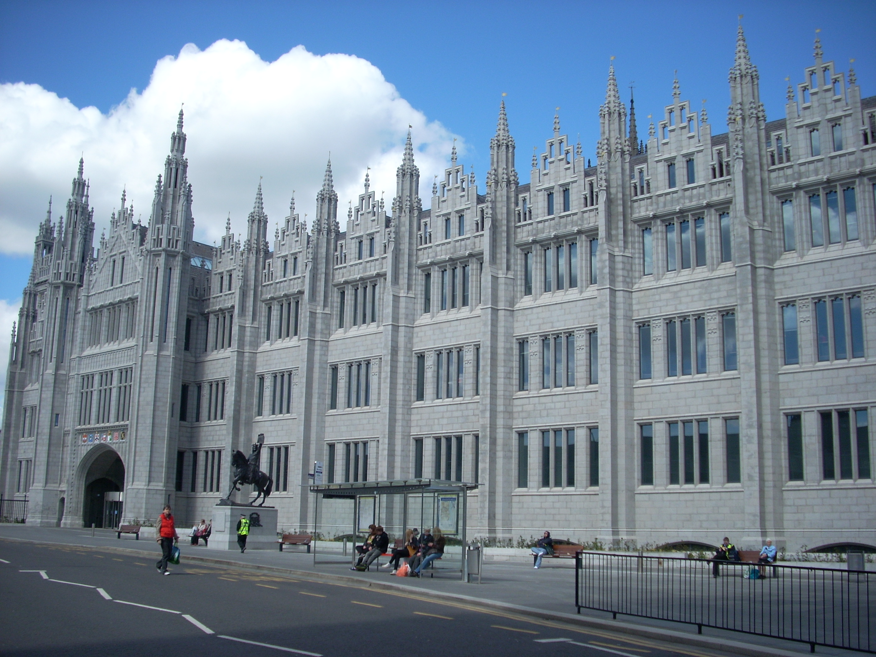 Marischal College, Aberdeen, May 2012, seen from Broad Street, Broad Street, Aberdeen.